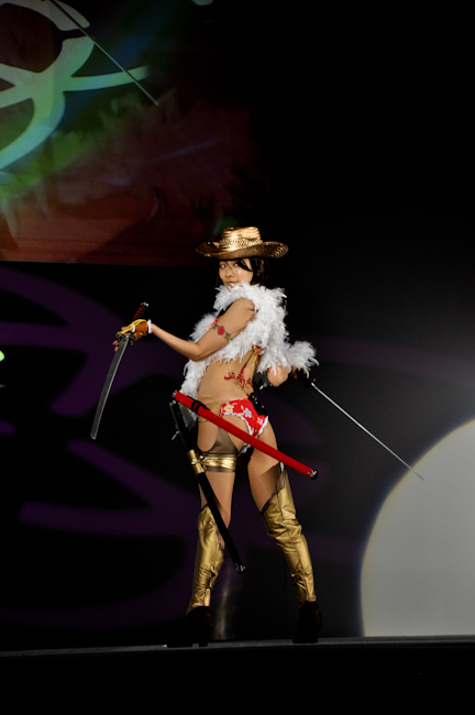 Taken on September 17, 2011 Nikon D90